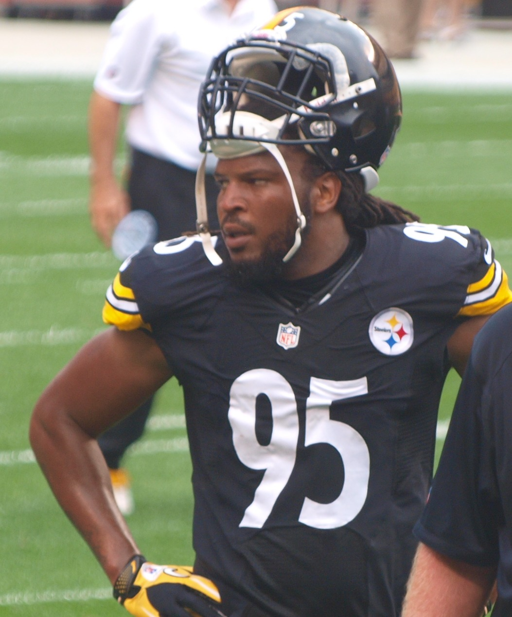 Pittsburgh Steelers linebacker, Jarvis Jones, in his rookie season.